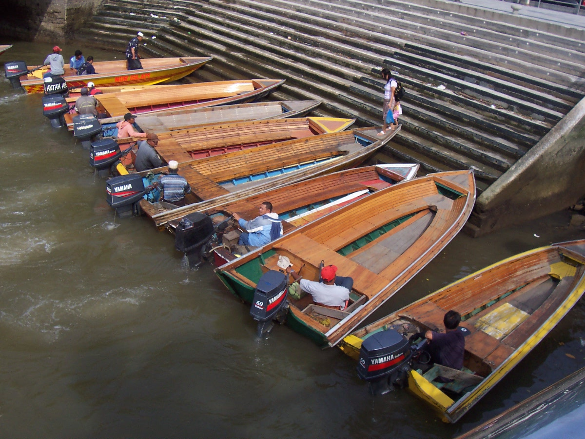 Water taxis awaiting passengers near Jalan McArthur, Bandar Seri Begawan, Brunei.